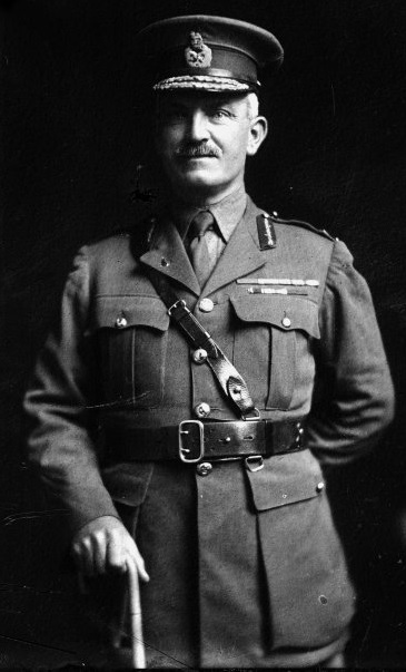 George Spafford Richardson. S P Andrew Ltd :Portrait negatives. Ref: 1/1-014800-G. Alexander Turnbull Library, Wellington, New Zealand.